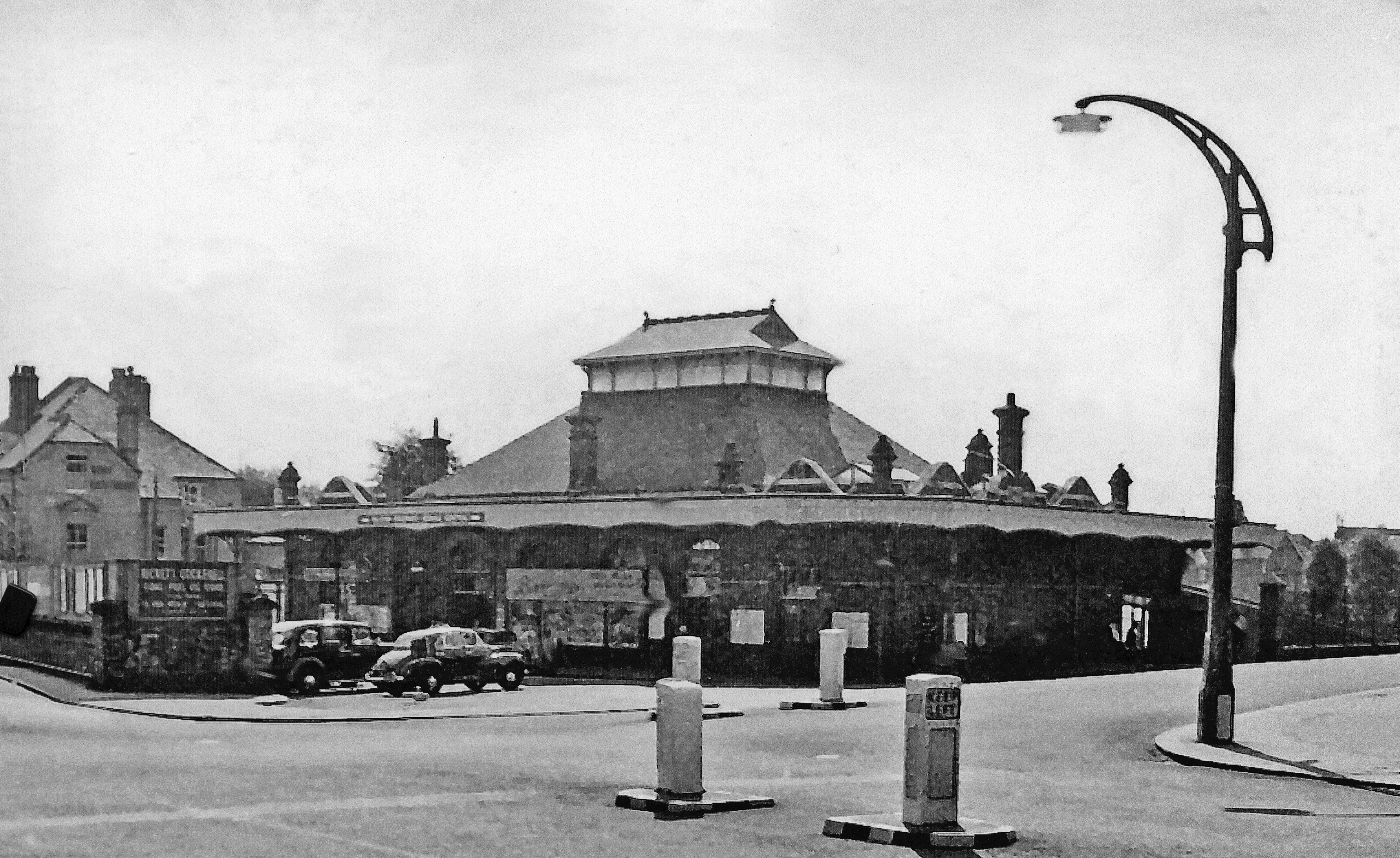 Bexhill Central Station, exterior. View SW, towards Eastbourne, Lewes and Brighton/London, of the entrance of the station at junction of Sea Road and Station Road.